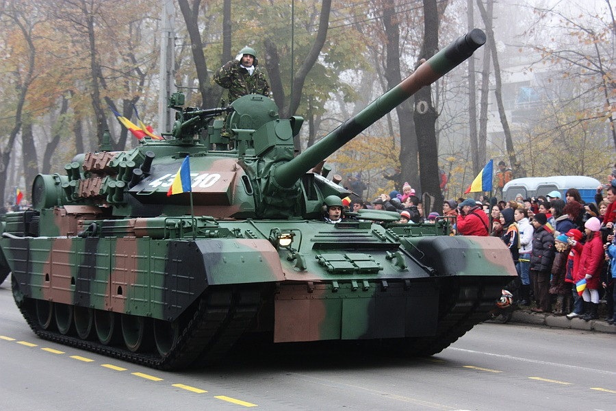 A Romanian TR-85 tank on the Romanian National Day parade on December 1st, at the Triumph Arch in Bucharest.